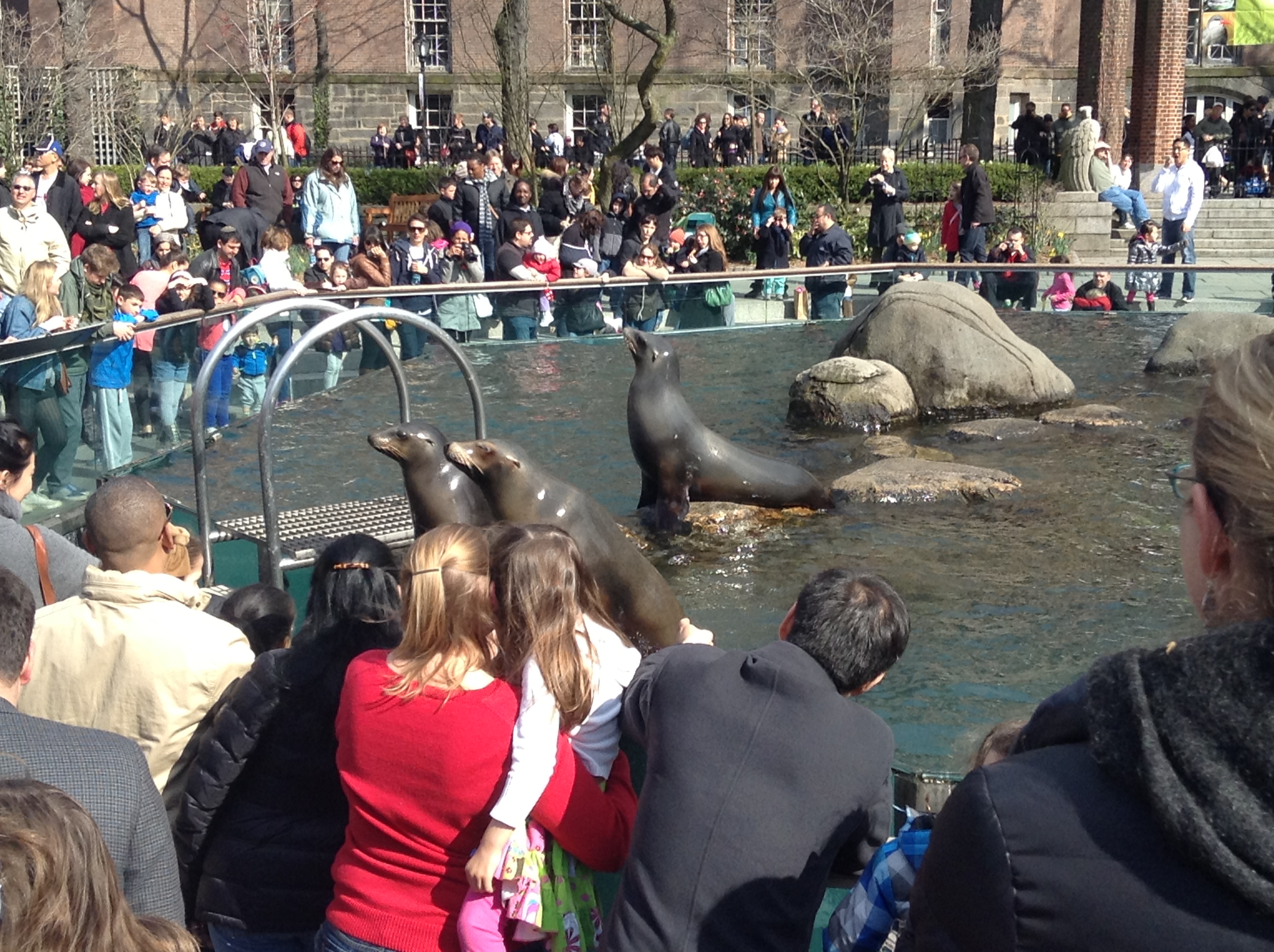 Sea lions entertaining crowd in Central Park Zoo in New York City.